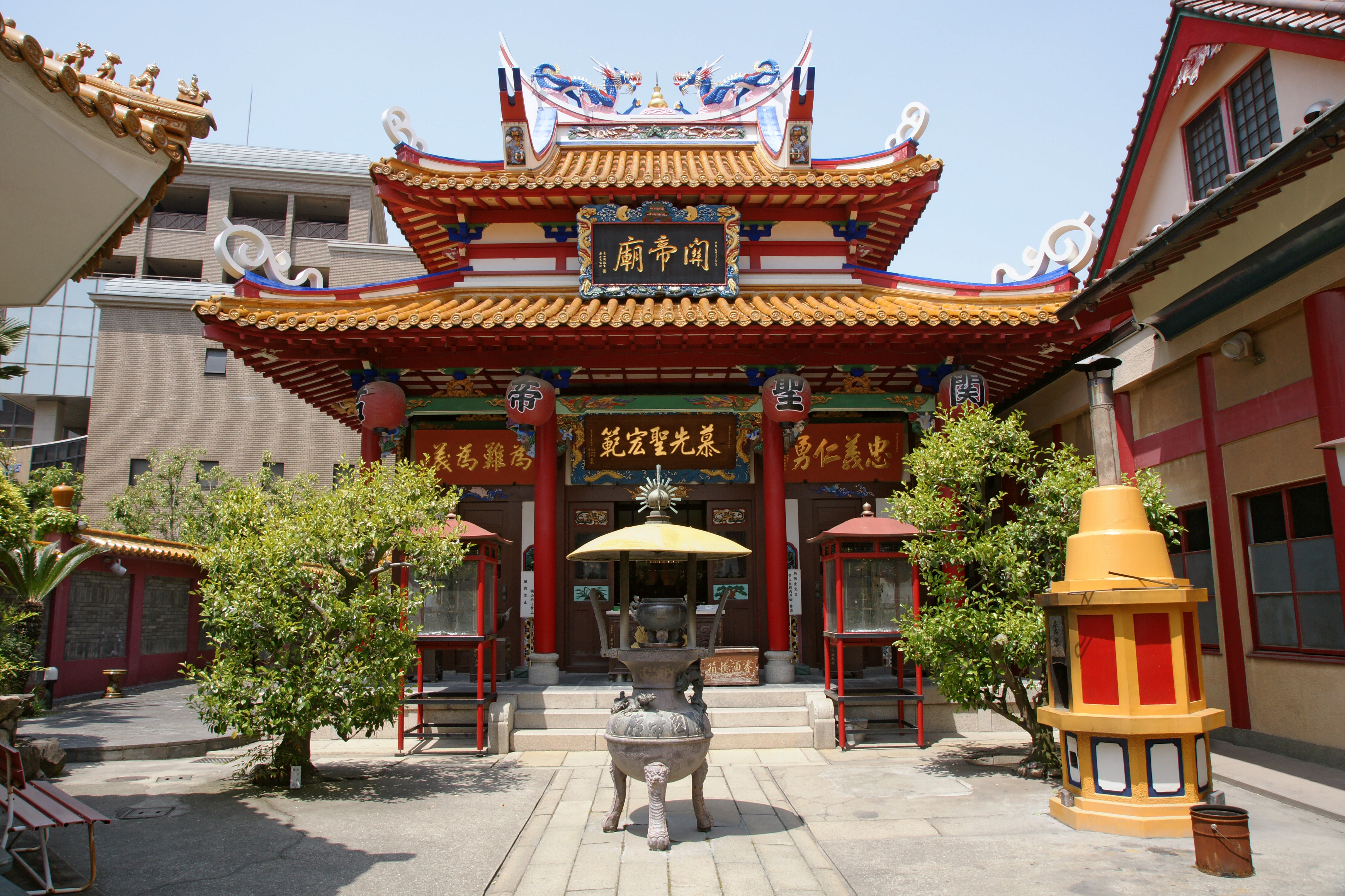 Kanteibyo (Chorakuji) in Kobe, Hyogo prefecture, Japan